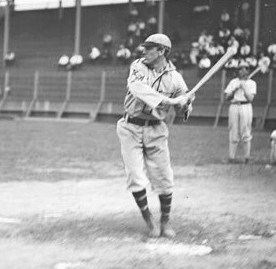 "Informal full-length portrait of Branch Rickey, baseball player for the American League's St. Louis Browns baseball team, holding a baseball bat, standing in a batting stance at home plate on the field at South Side Park, located at West 37th Street, South Princeton Avenue, and West Pershing Road (formerly West 39th Street), and South Wentworth Avenue in the Armour Square community area of Chicago, Illinois. An unidentified baseball player is standing in the background, and another unidentified player is sitting. Spectators are visible in the grandstands and bleachers in the background." Cropped from original LOC image.